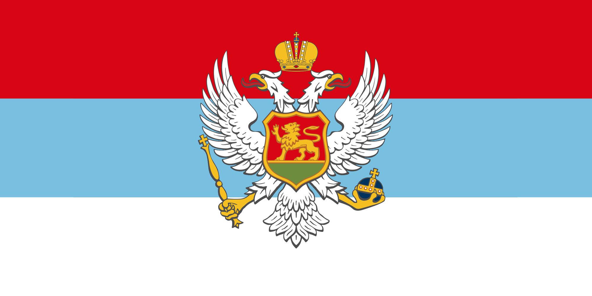 Proposed flag of Montenegro: background coloures based on the Republic of Montenegro flag (1993-2004), with coats of arms of the Principality/Kingdom of Montenegro (1905-1918) in 1:2 proportin